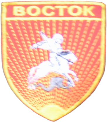 Shoulder sleeve insignia of the Vostok Brigade, a unit of the DPR 1st Army Corps. This particular one is from 2015.